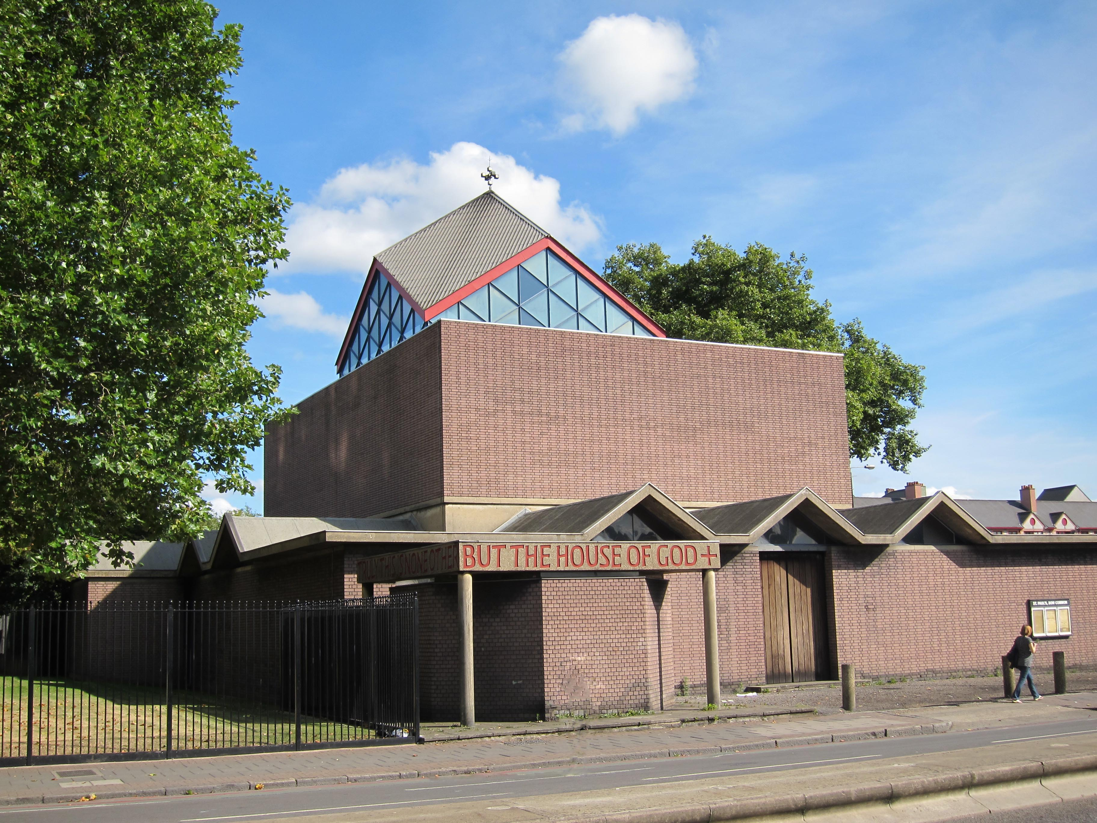 Church of St Paul's Bow Common seen from Burdett Road